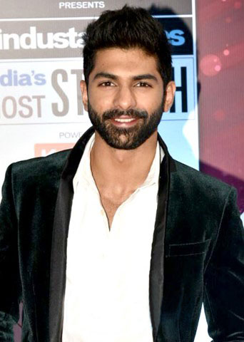 Taaha Shah graces the HT Style Awards 2018.